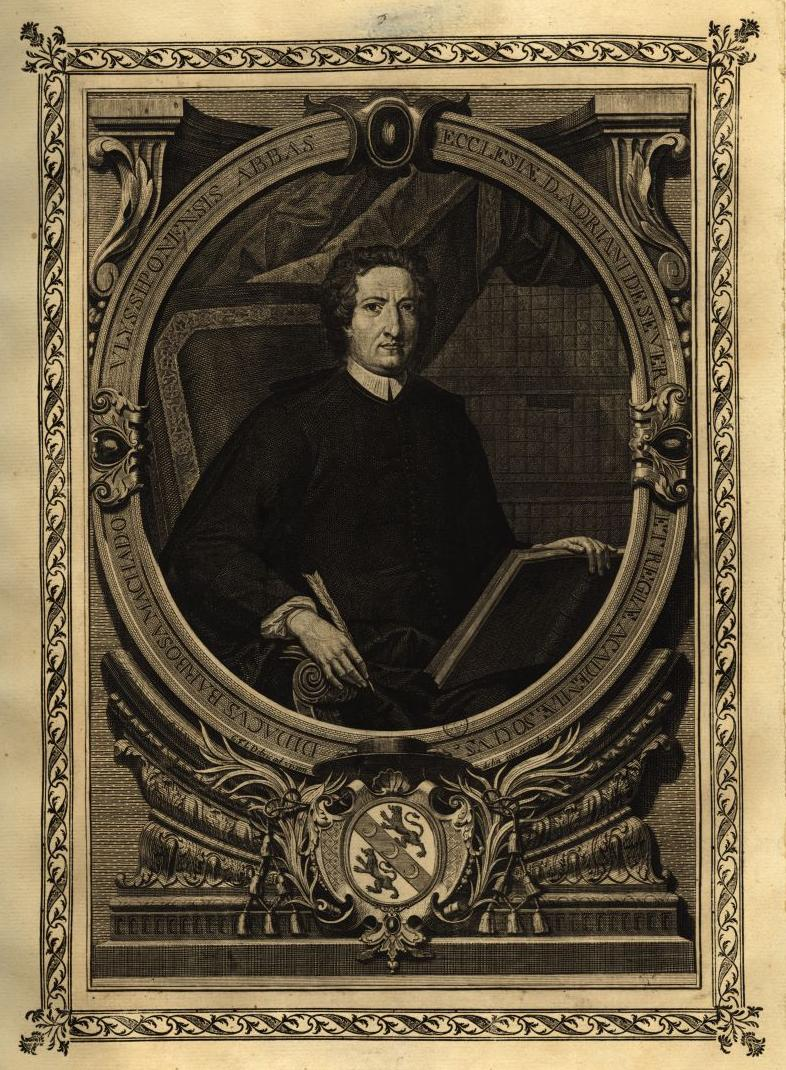 Diogo Barbosa Machado, member of the Royal Academy of Portuguese History